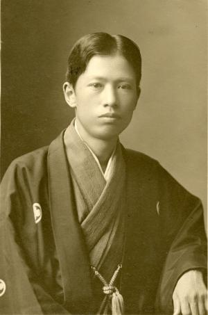 Japanese Artist Hishida Shunso(菱田春草)